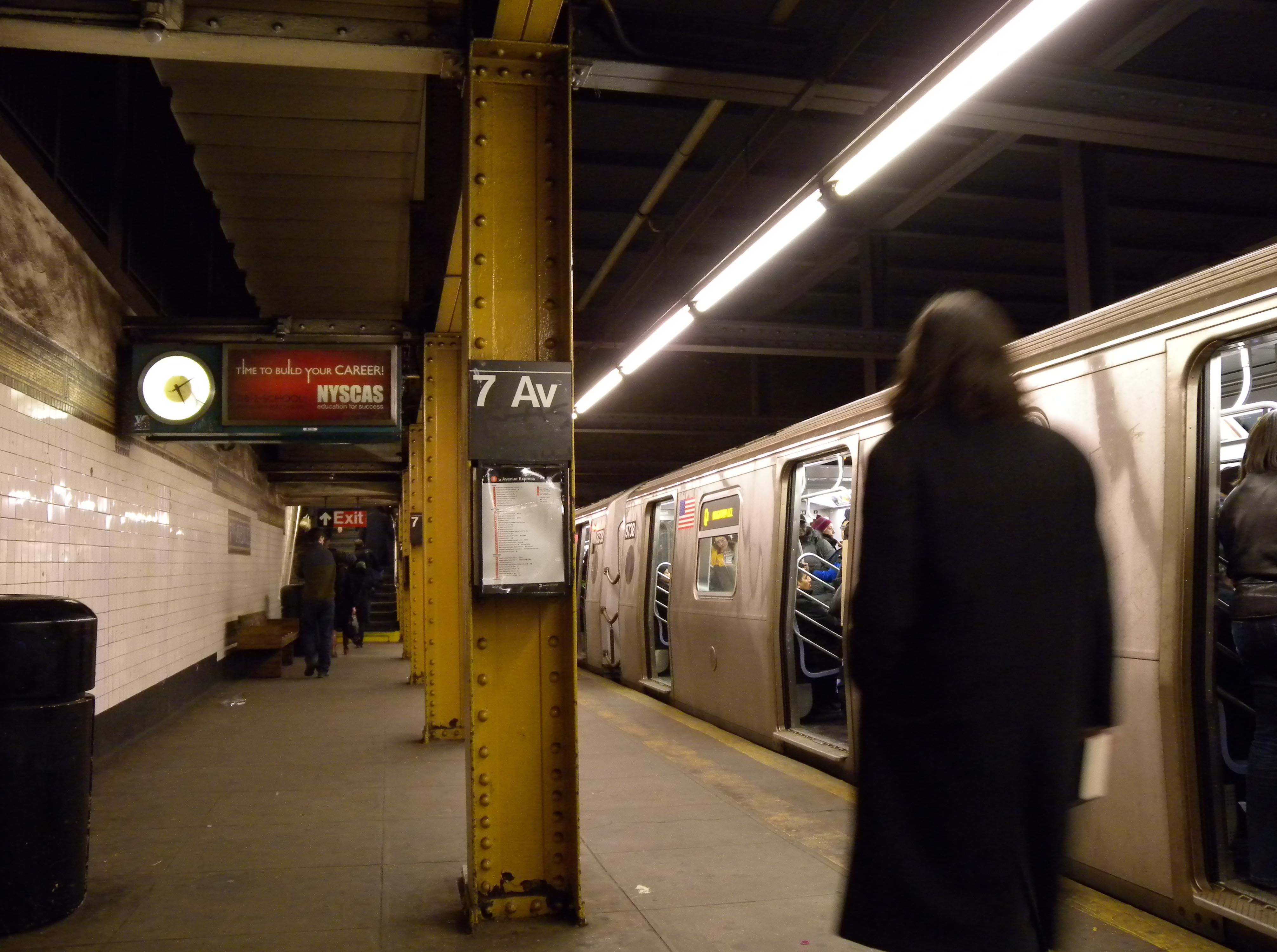 Seventh Avenue (BMT Brighton Line) southbound platform. EXIF date is wrong due to photographer's error.